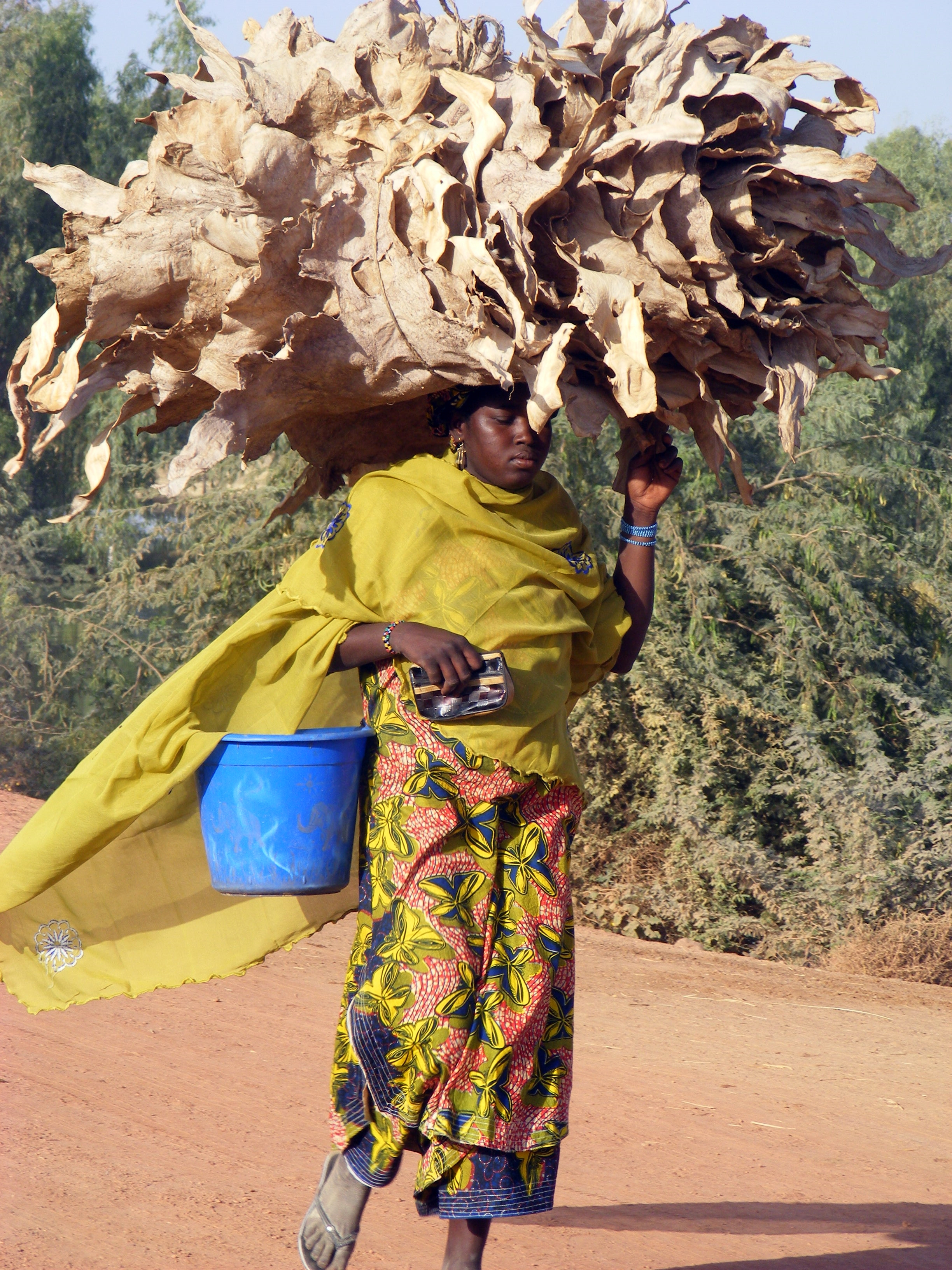 This is an image with the theme "Africa on the Move or Transport" from: Mali